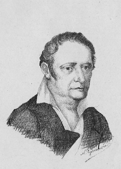 Portrait of August Tandon